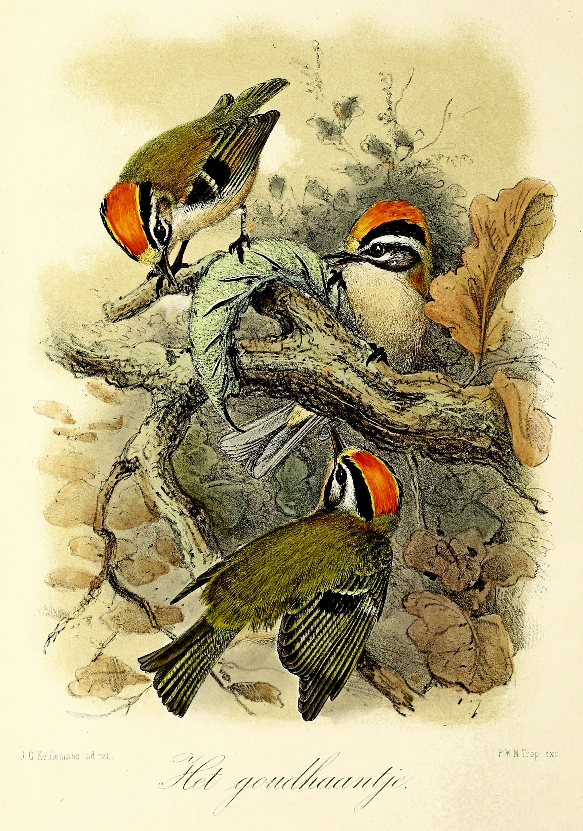 « Regulus ignicapillus » = Regulus ignicapilla (Common firecrest)